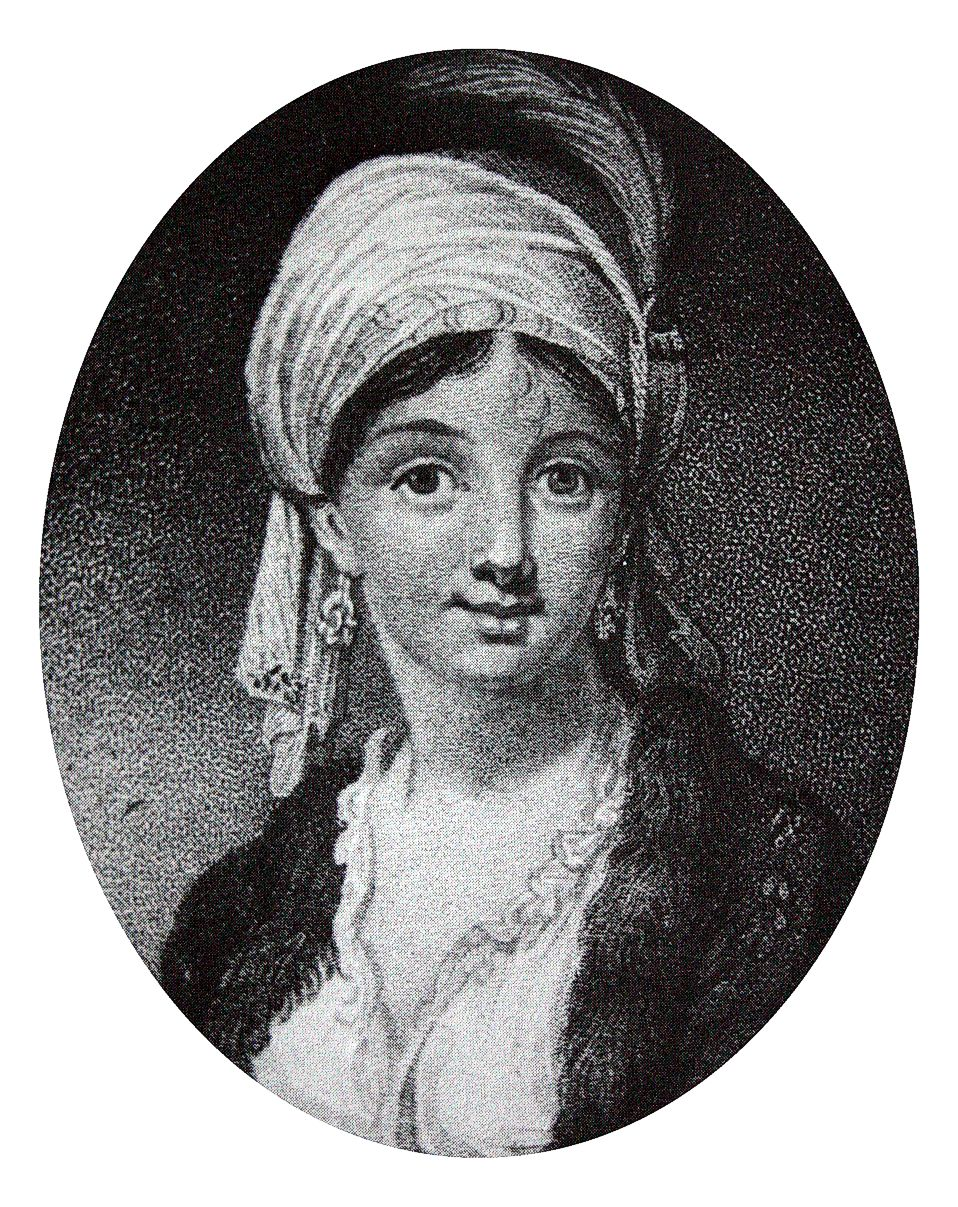 Portrait of Princess Aster aka Princess Esther, daughter of Mentewab (1706-1773), Empress of Ethiopia, and consort of Mikael Sehul, Ras of Tigray